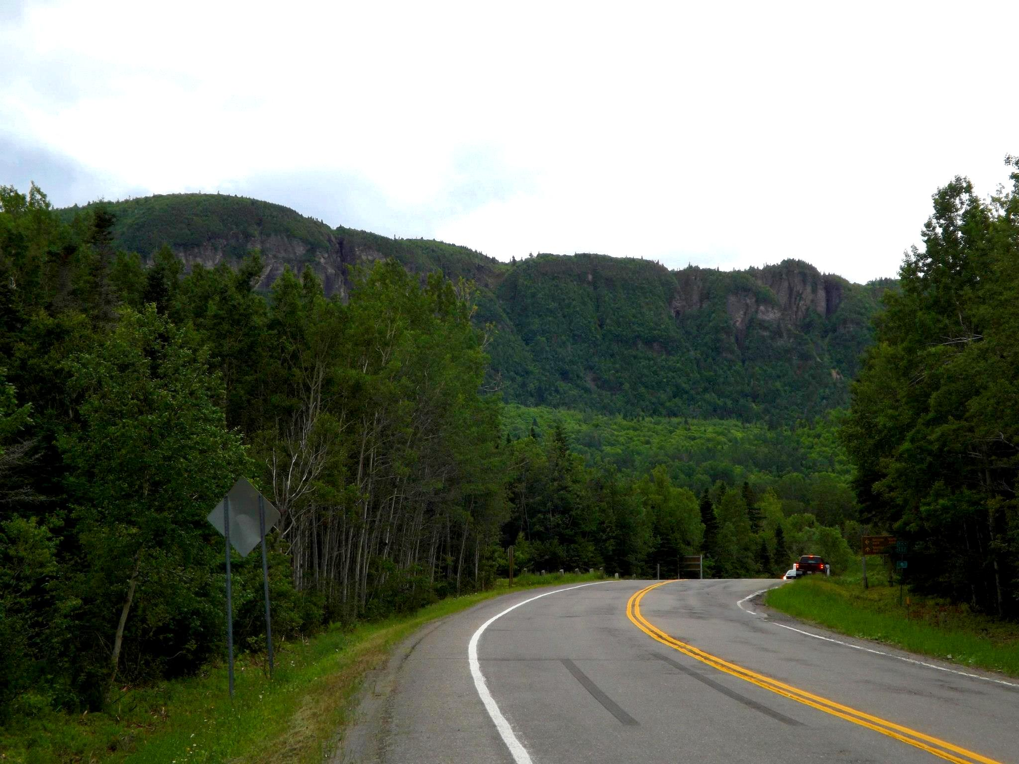 Near La Chute trailhead, headed eastbound along Provincial Route 132 in Forillon National Park, Quebec, Canada.